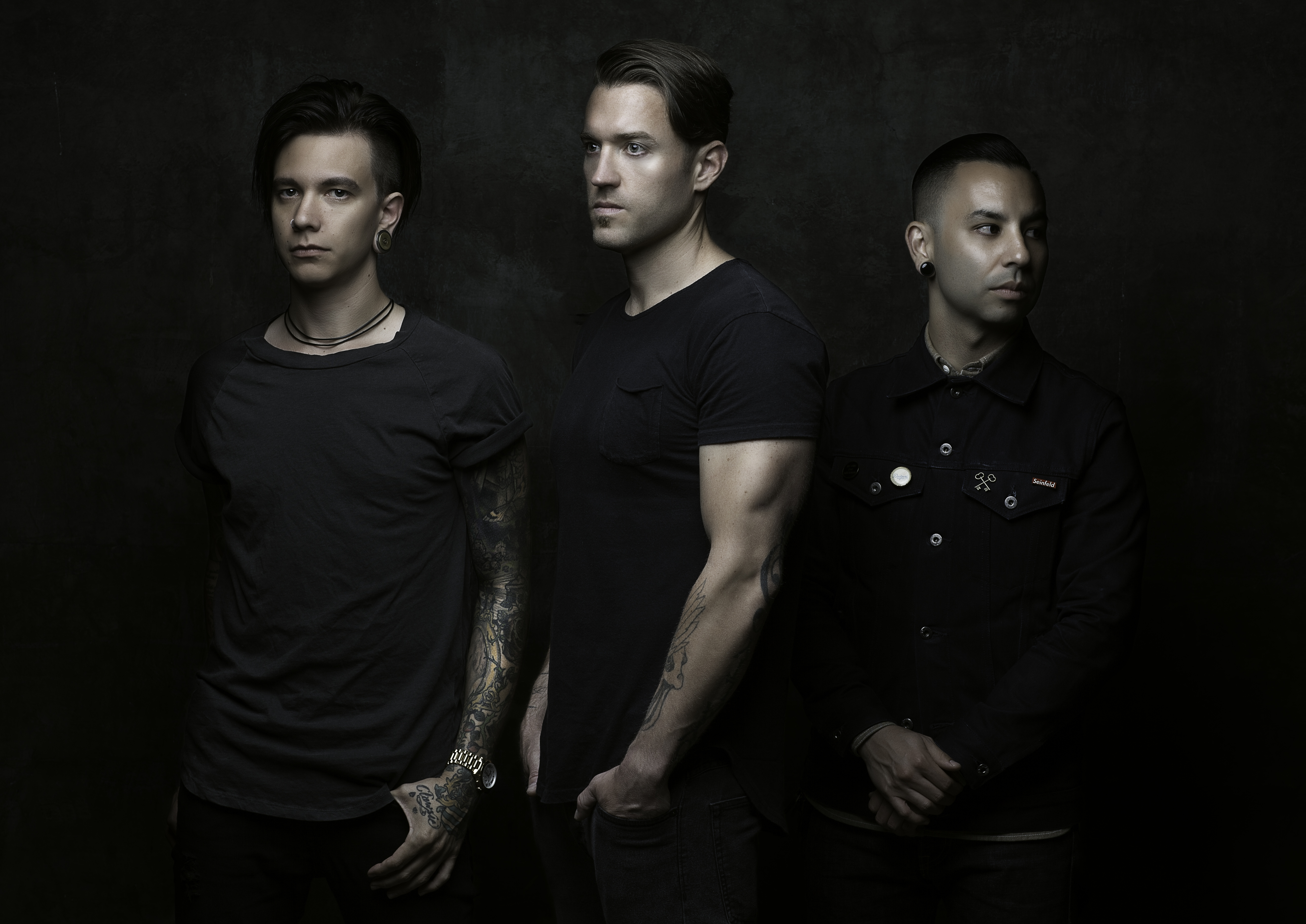 xo stereo